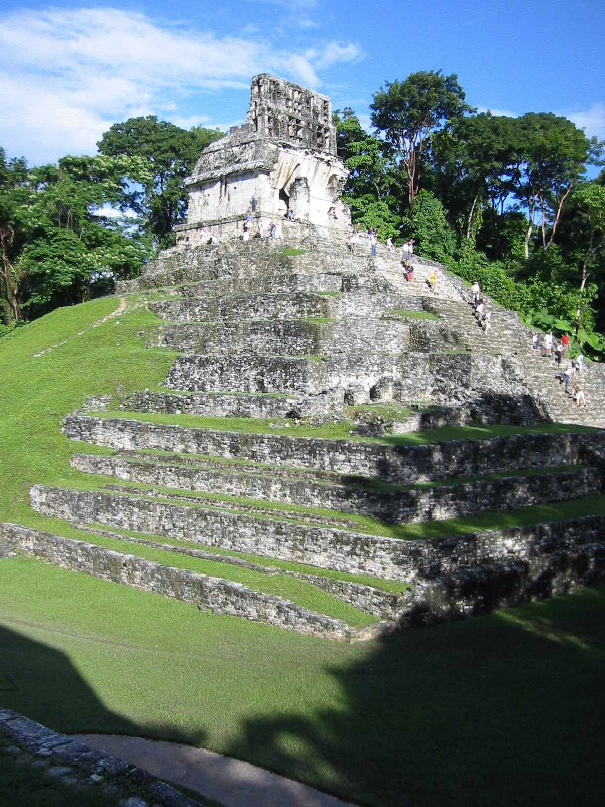 "The best time to visit this sweltering, breezeless complex is in the early morning when a humid haze wraps the ancient temples in a mysterious mist," Lonely Planet says.